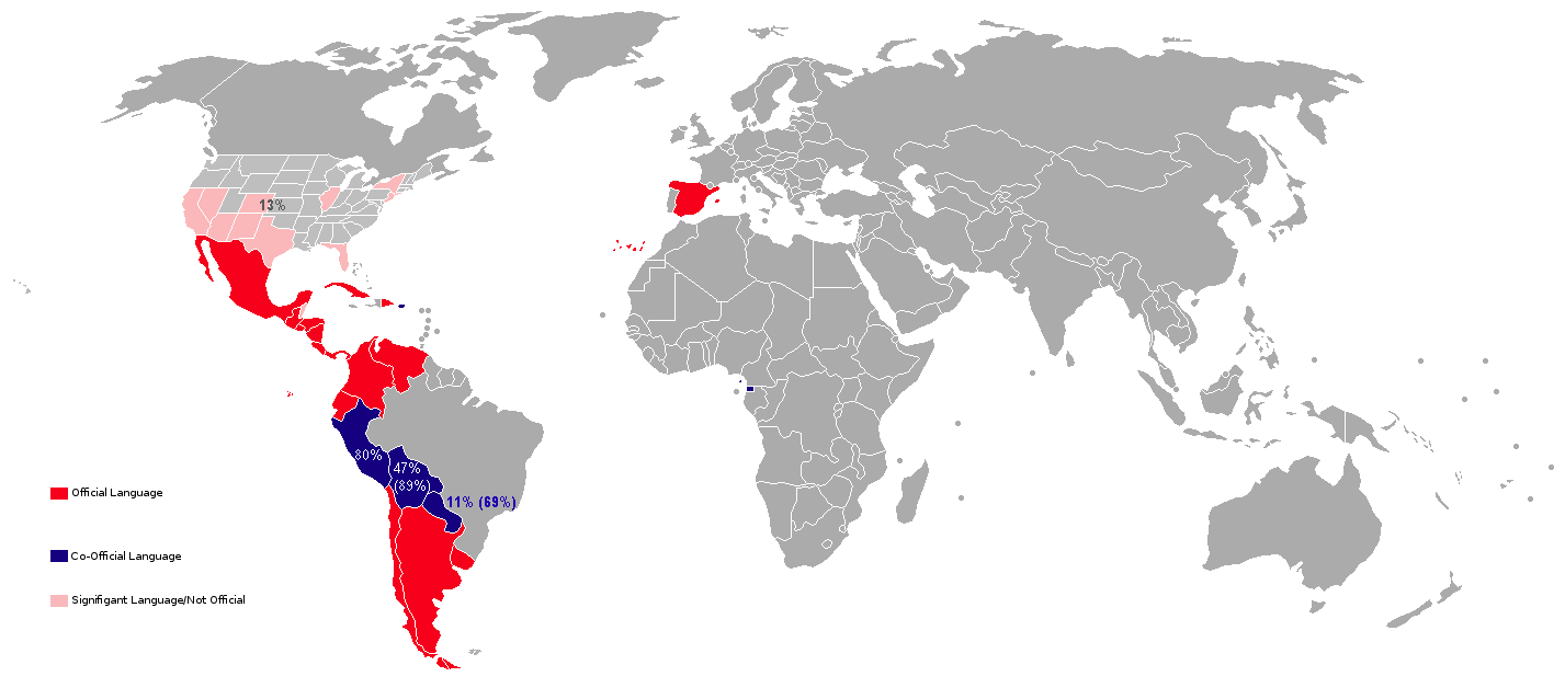 Countries with Spanish as official language and countries with a significant Spanish-speaking population. (in brackets: Spanish as second language)